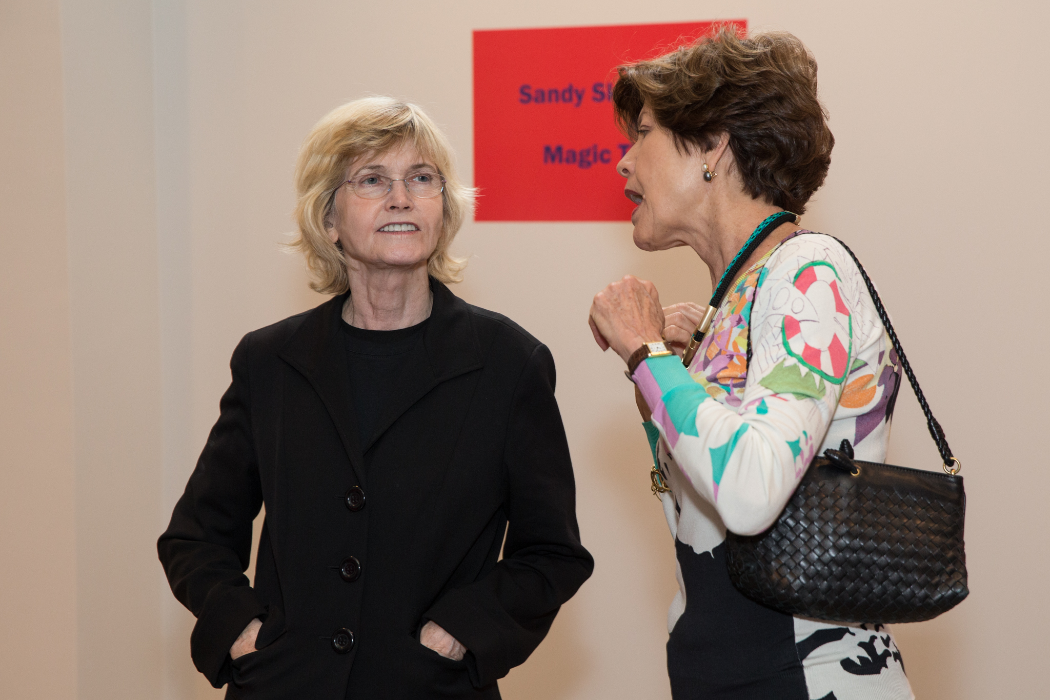 Artist Sandy Skoglund (left) in conversation with a gallery visitor